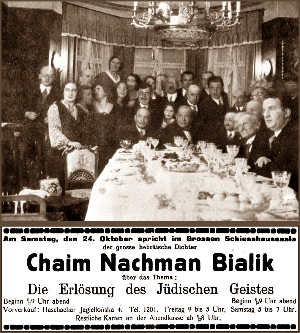 Jewish poet Chaim Nachman Bialik in Bielsko on October 24, 1931